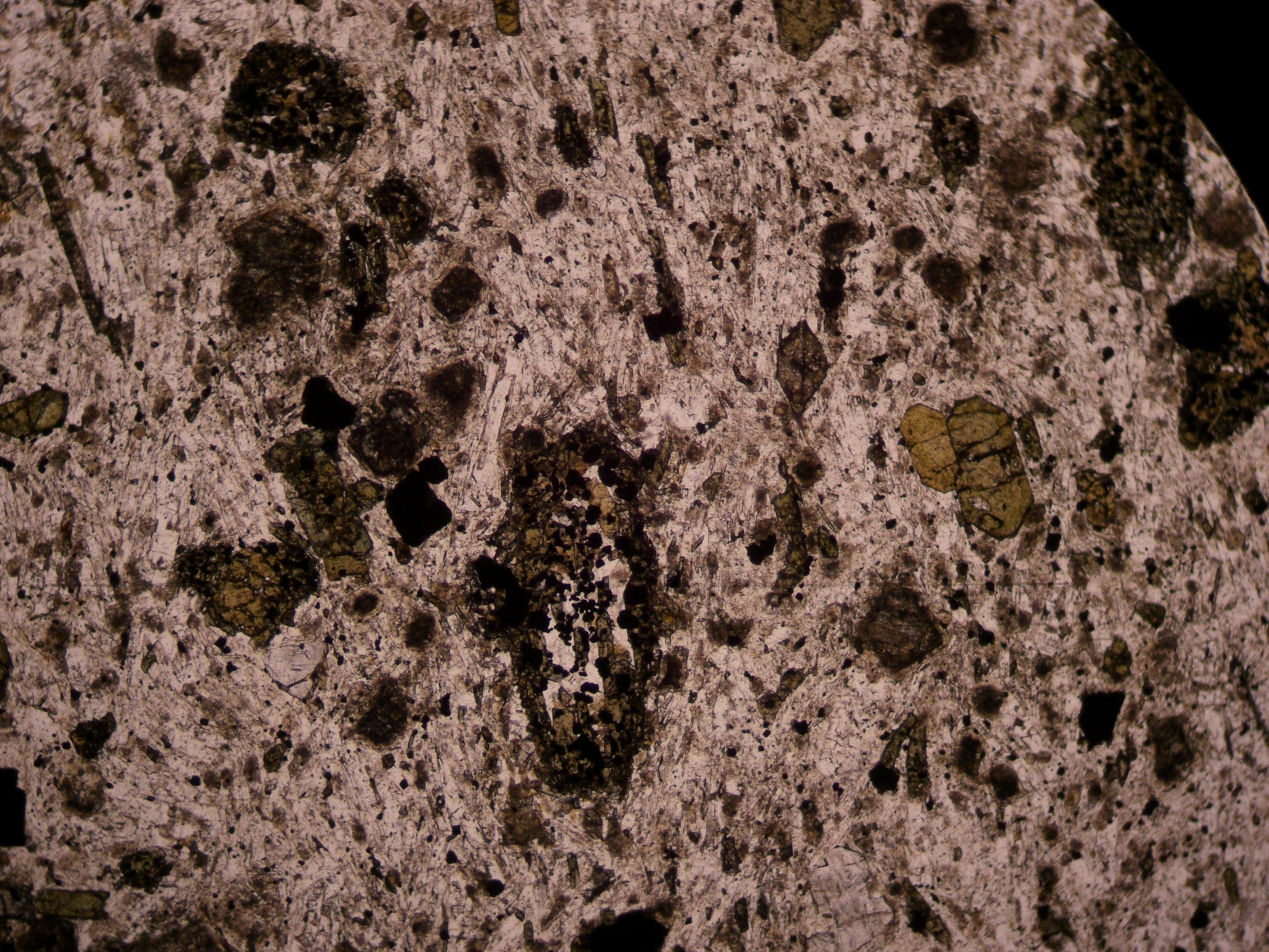 Igneous rock trachyte. Photomicrograph with one polar.